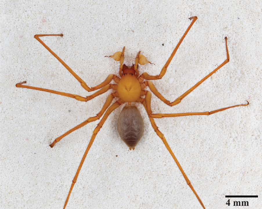 Trogloraptor marchingtoni (Male) from M2 Cave, Oregon